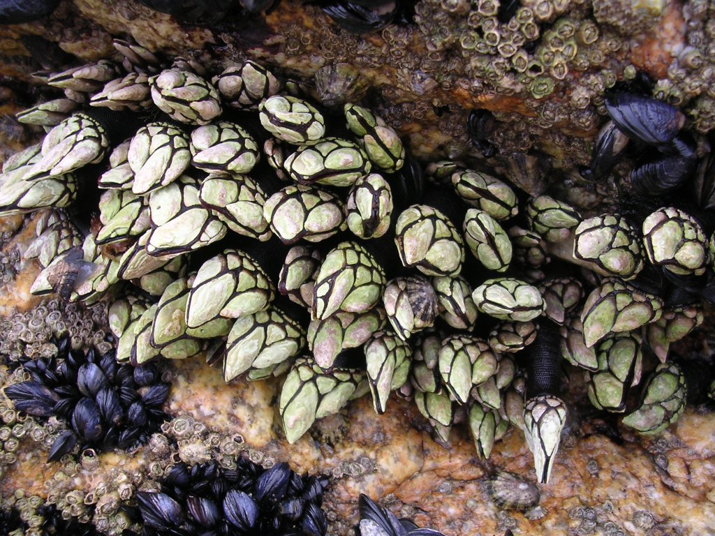 Pouces-pieds (Pollicipes pollicipes) 2005 Gauthier Catteau